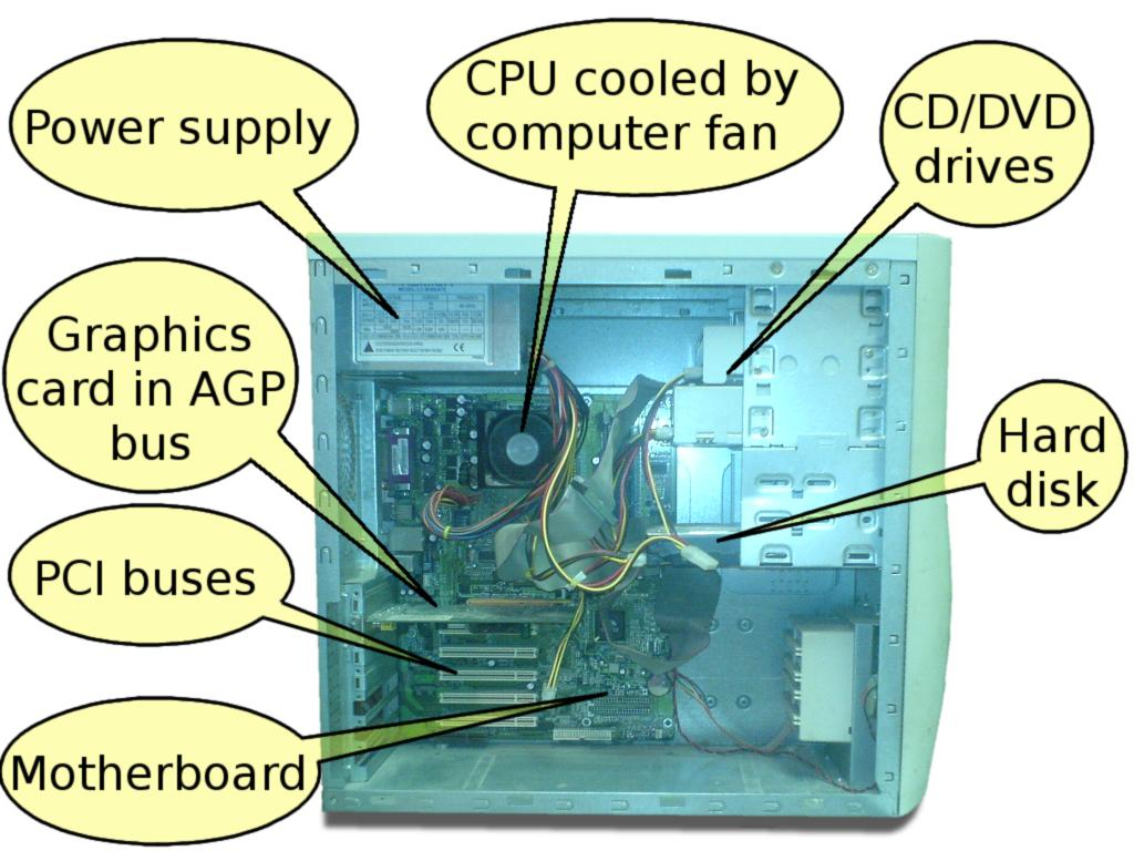 View inside a PC with hardware components labeled.